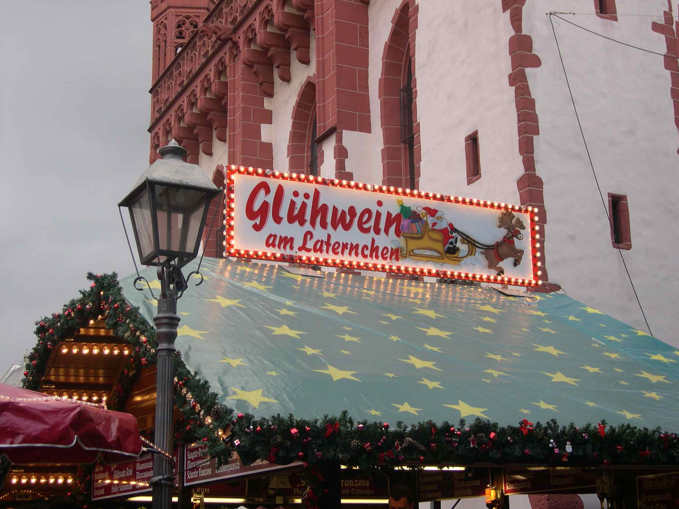 Glühwein, mulled Christmas wine, was flowing in every corner of the Frankfurt Christmas Village.